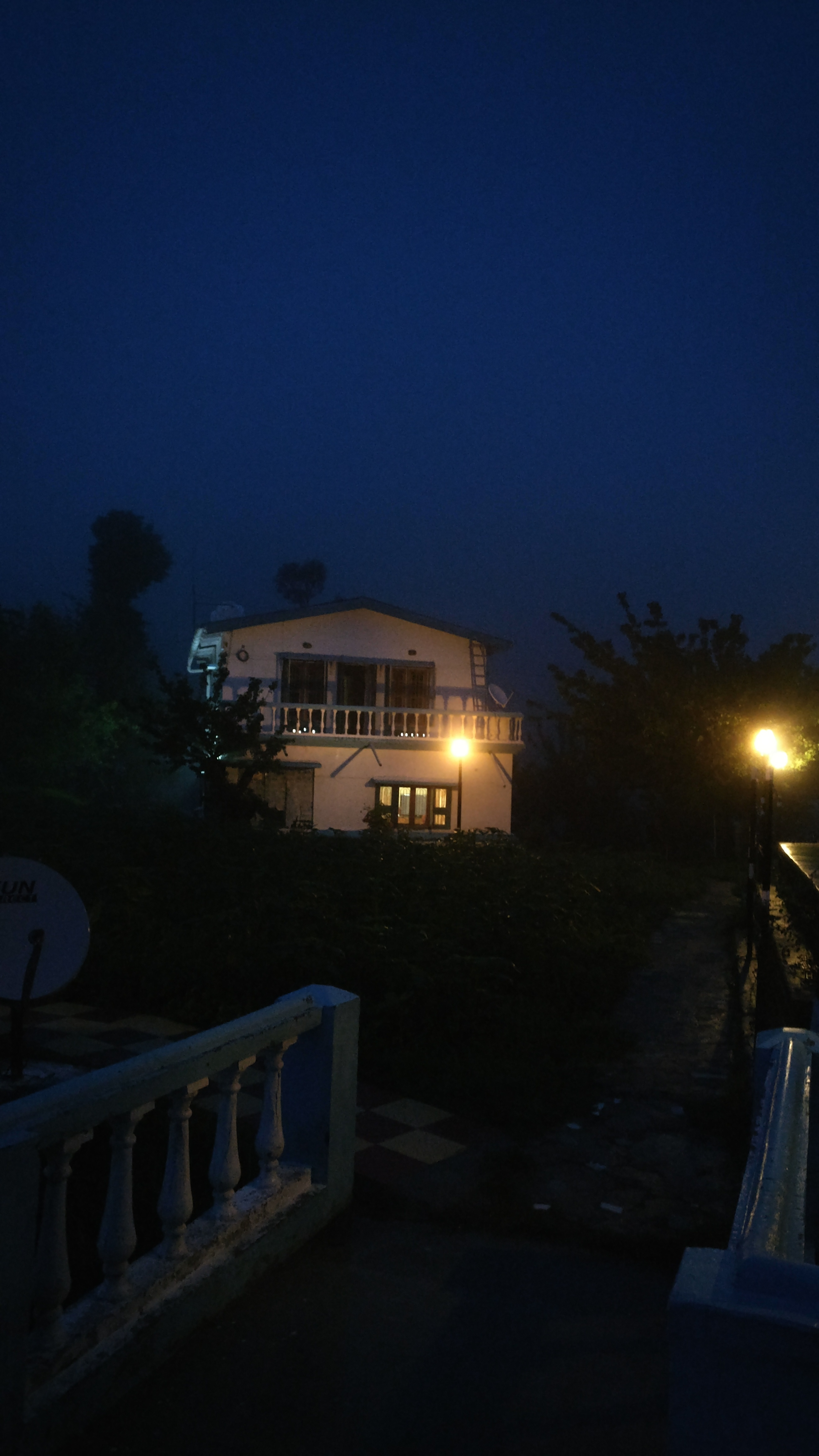 The Village